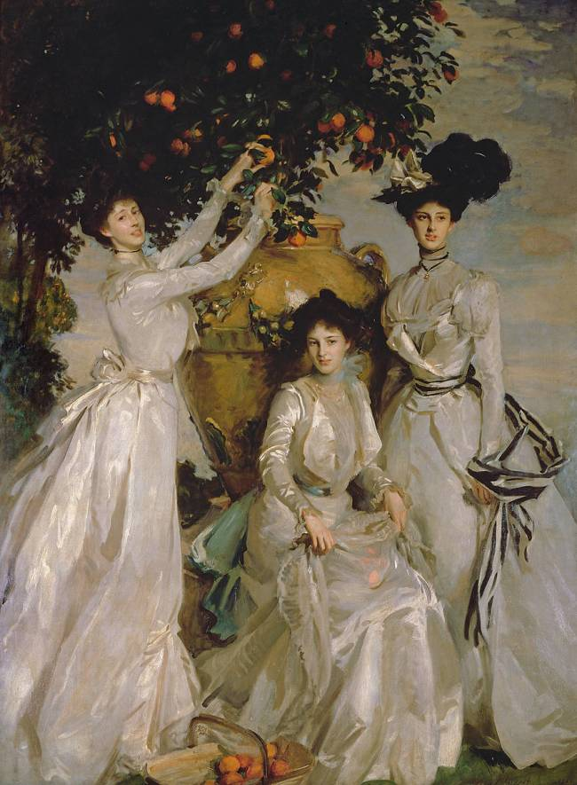 Acheson Sisters (Ladies Alexandra, Mary and Theo Acheson) John Singer Sargent -- American painter 1902 Devonshire Collection, Chatsworth Oil on canvas 269.2 x 198 cm (106 x 78 in.) Signed and dated 'John S Sargent 1902' Jpg: local